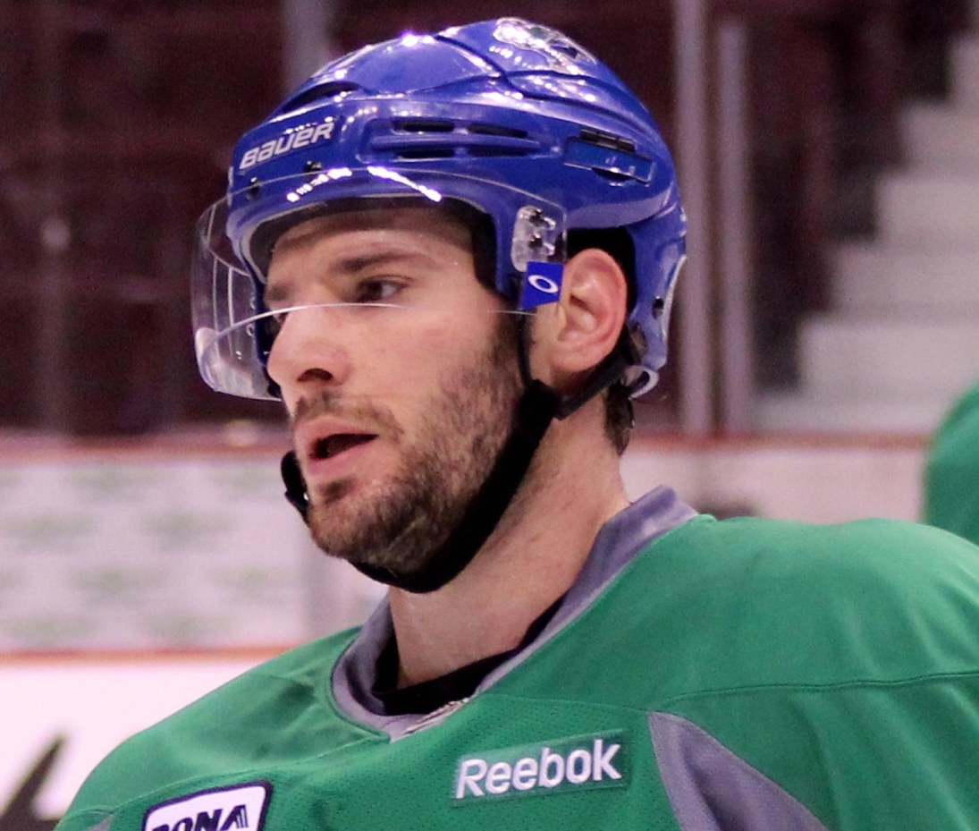 Vancouver Canucks Practice